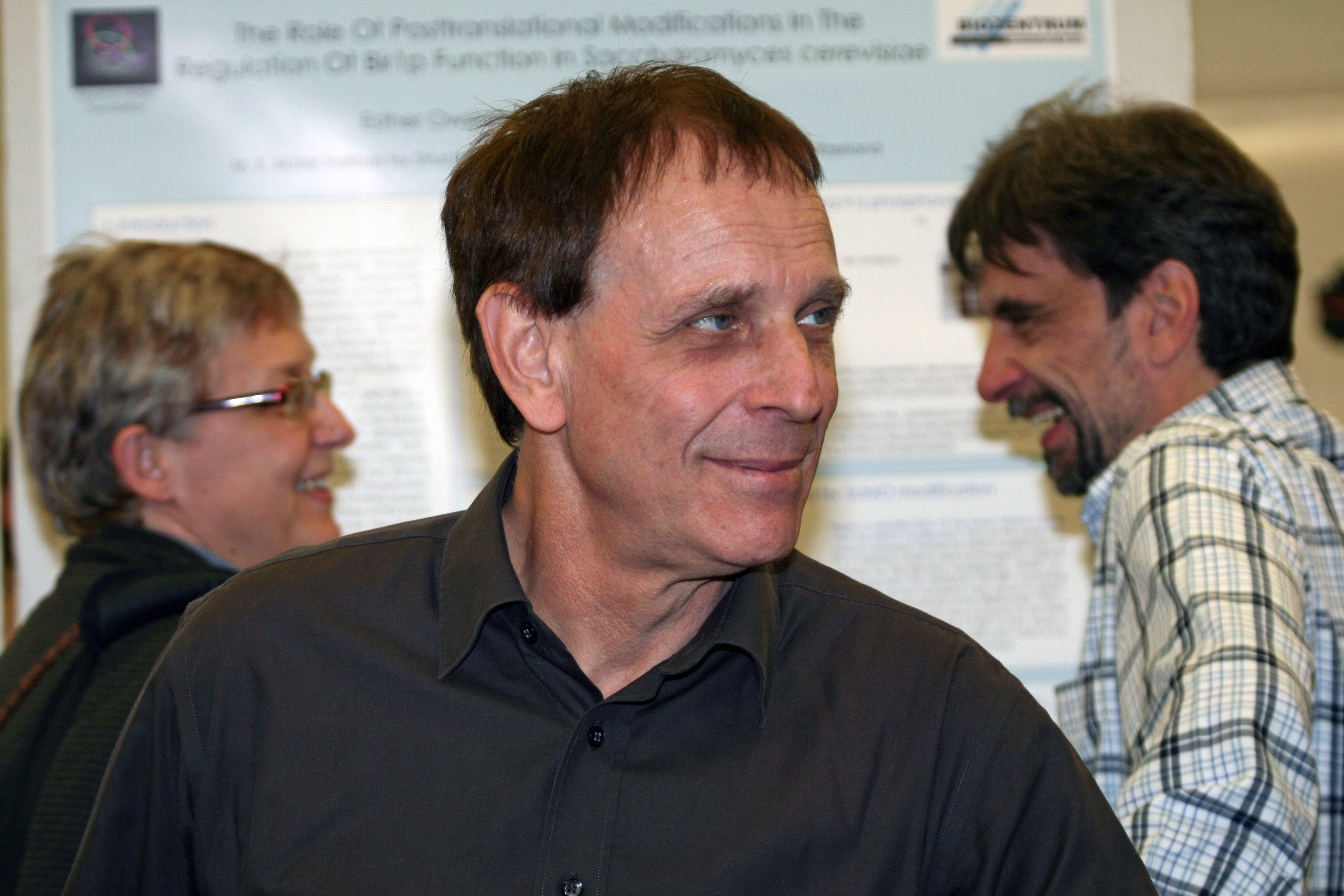 Professor Hanspeter Hauri